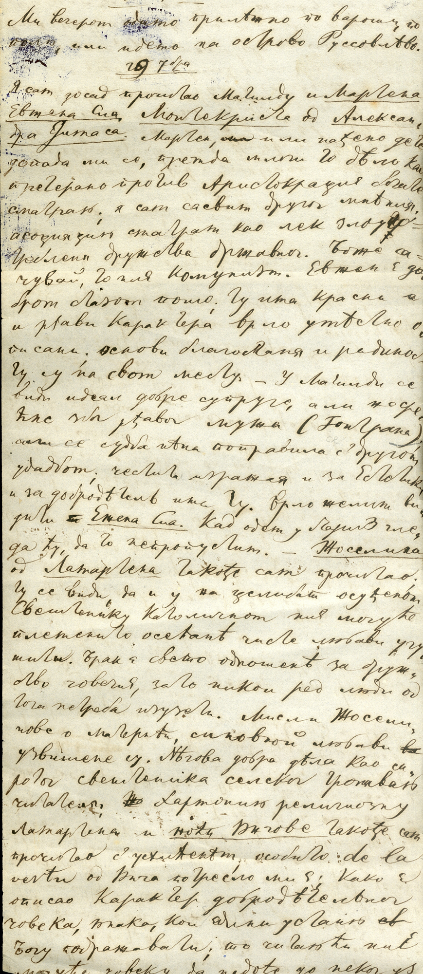 Dimitri Matić’s diary entry written between 1844 and 1848